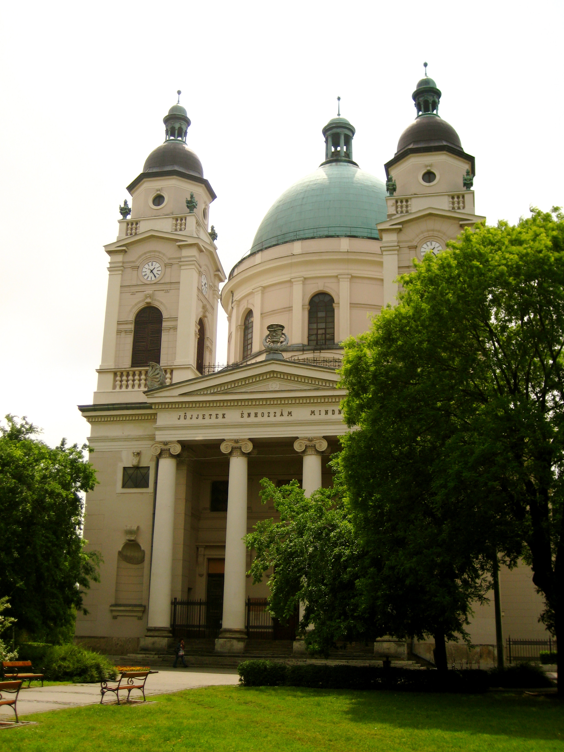 Author:Alex Barrow|User:Alexbarrow|Alex Barrow (talk|User talk:Alexbarrow|talk) 01:10, 30 November 2008 (UTC)